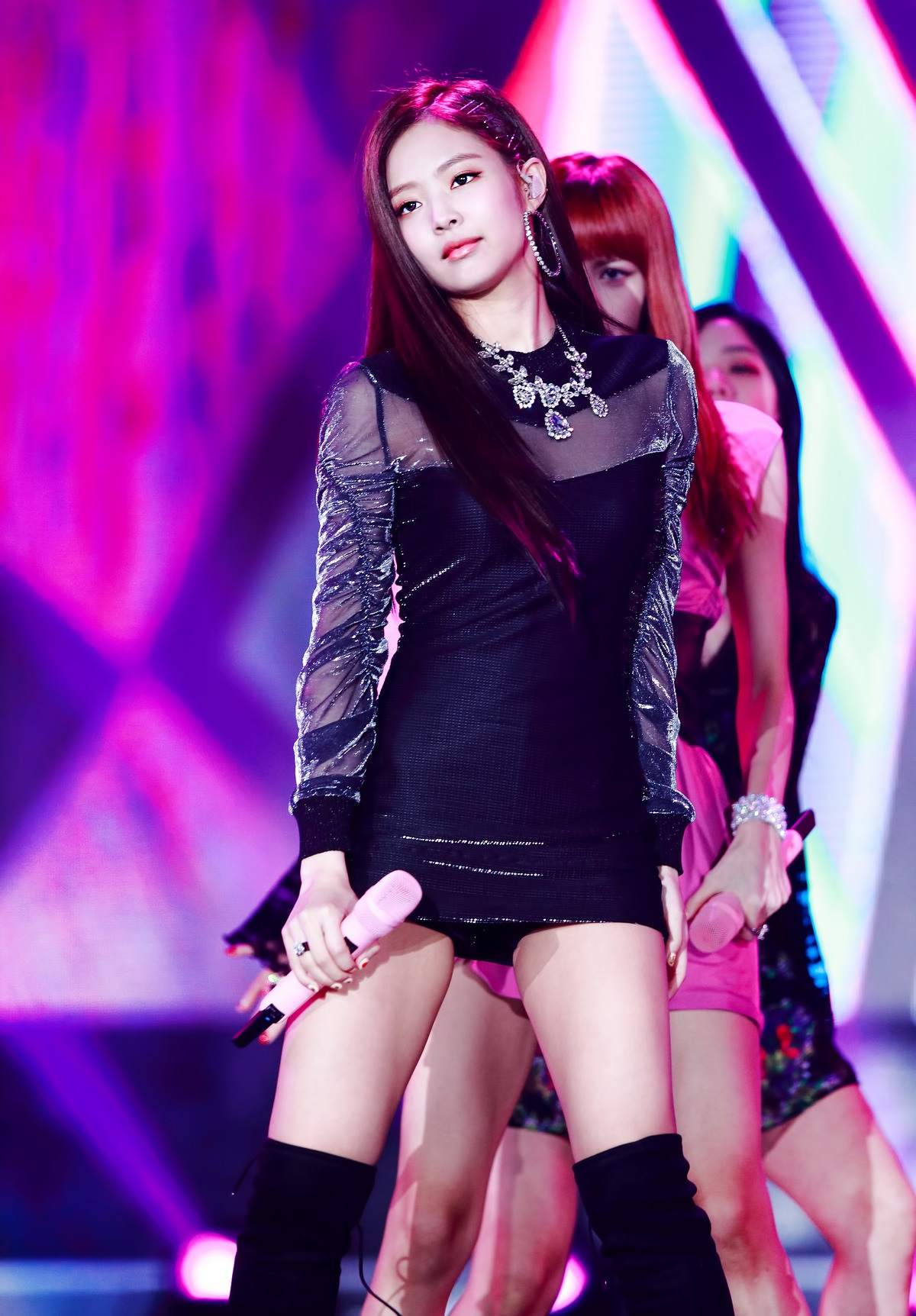 Jennie at Korea Music Festival on October 01, 2017.